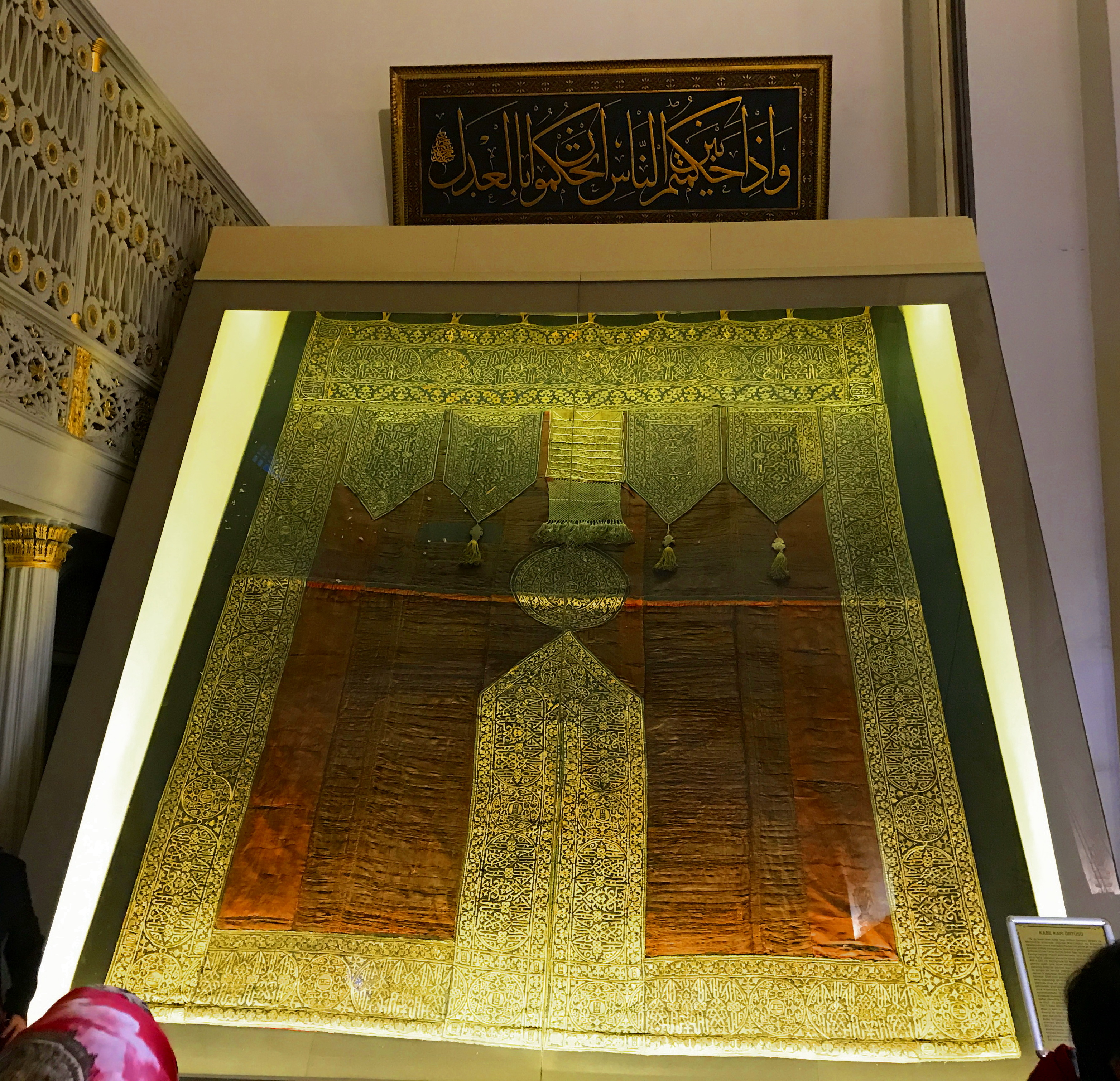 The Mamluk Kaaba Curtain in the Bursa Grand Mosque, Turkey.